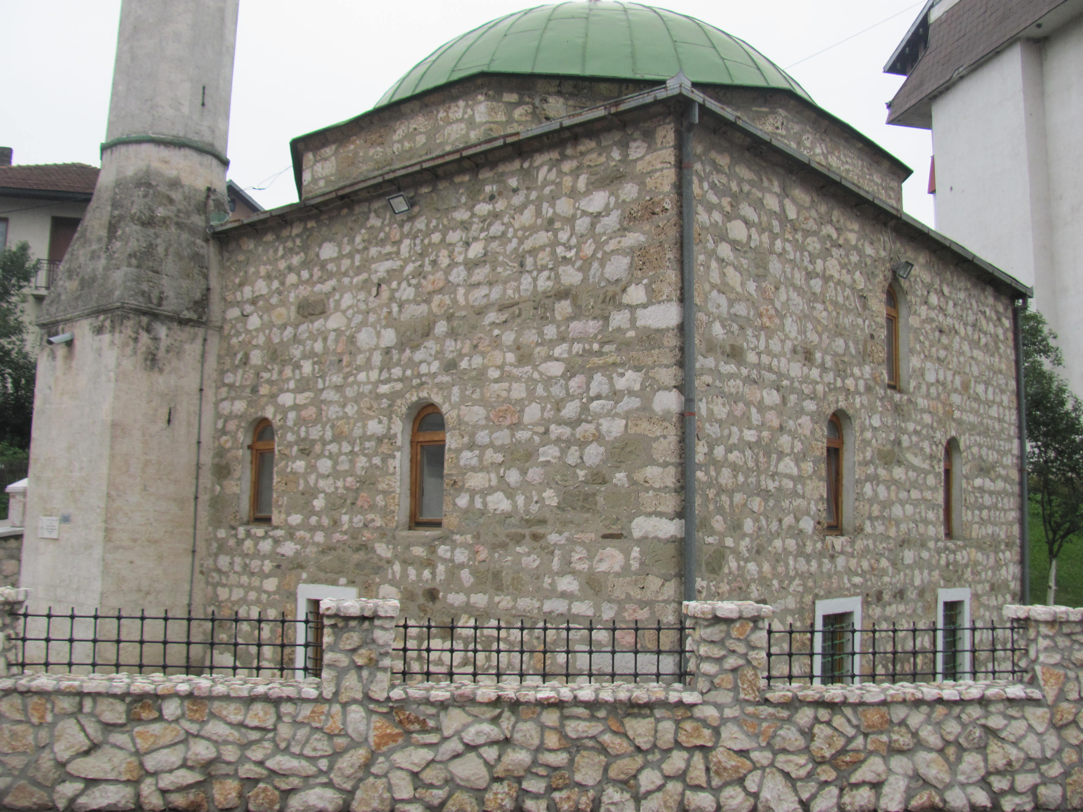 The Kuršumlija mosque in Kladanj, constructed in 1545 by hajji Bali-bey. It still stands in its authentic design in Kladanj.